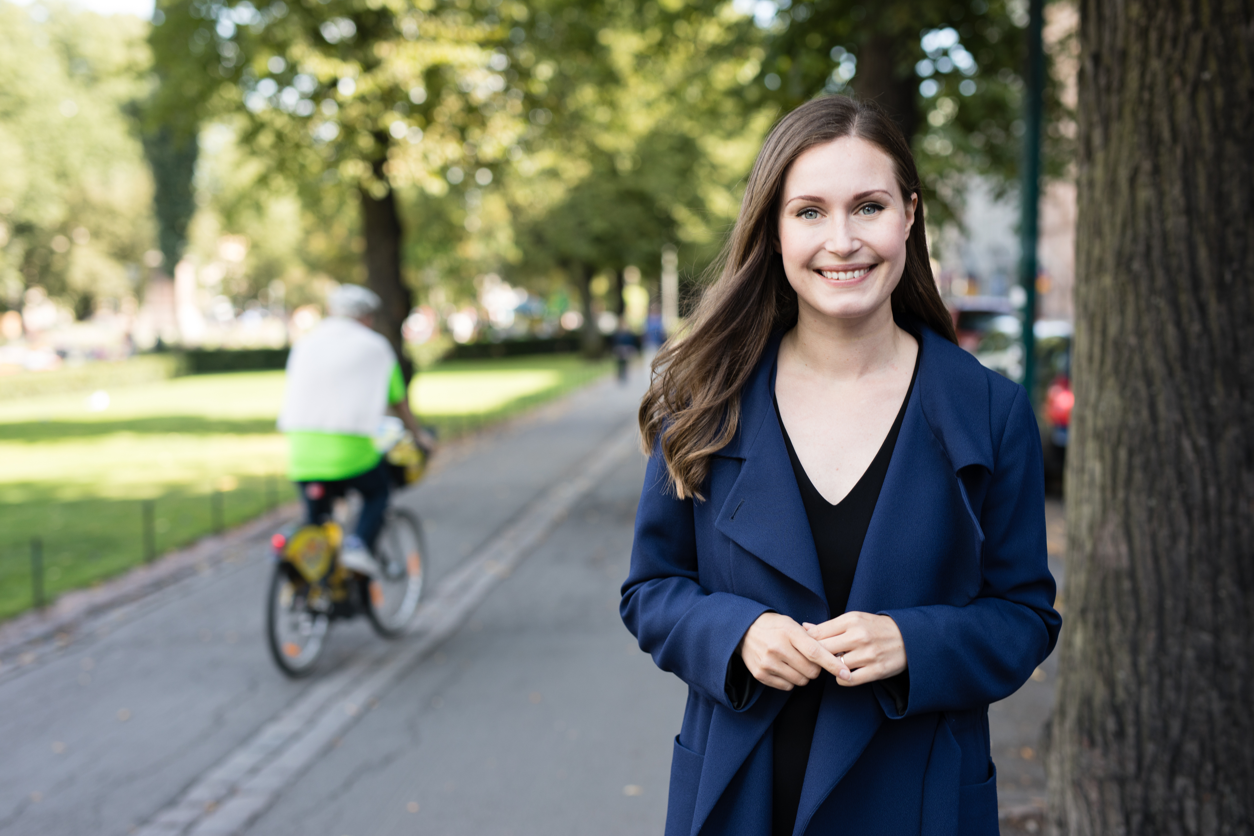 Sanna Marin in 2019